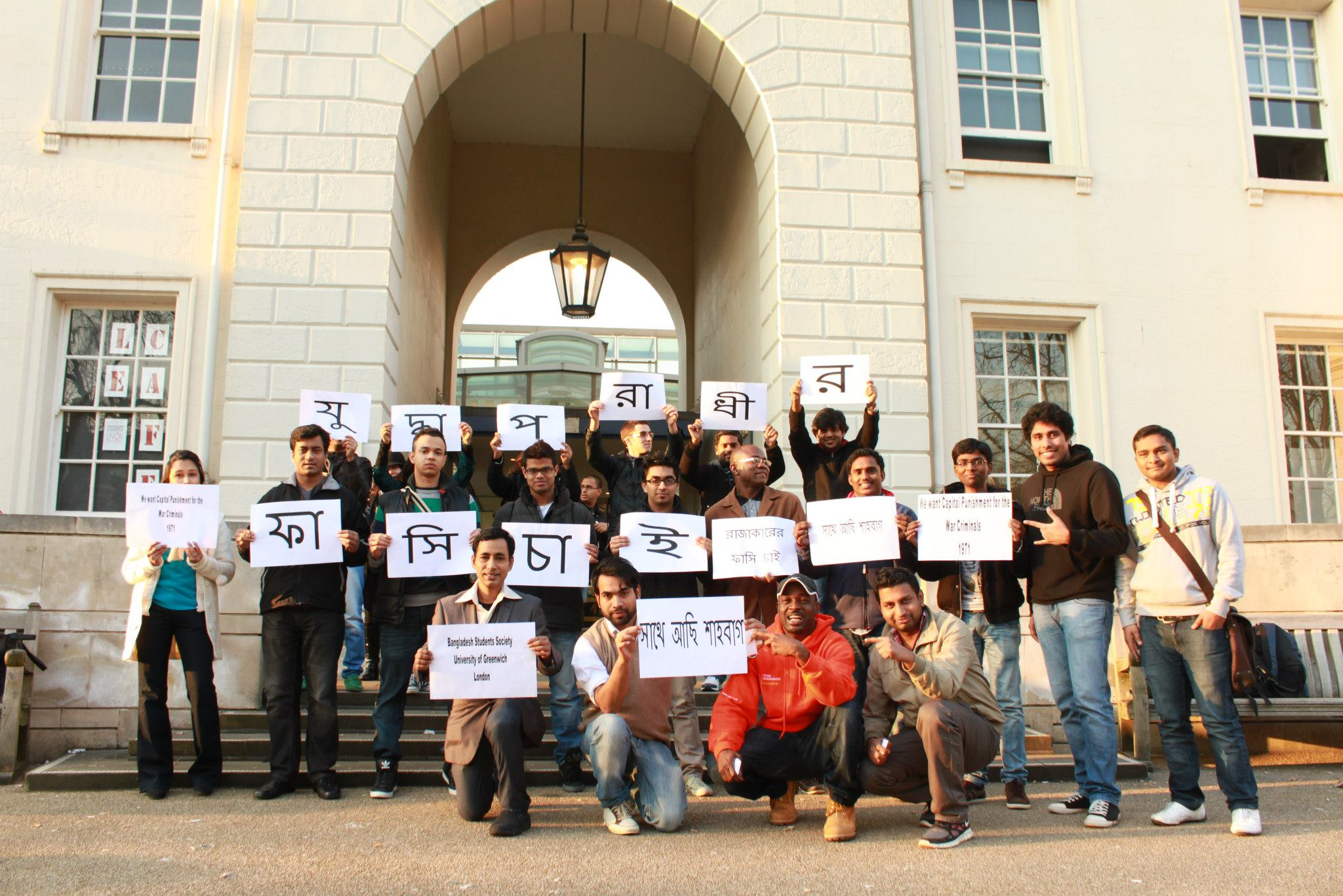 Demonstration against war criminals of '71 By Bangladeshi students’ society of The University of Greenwich